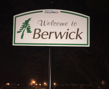 "Welcome to Berwick" sign near the intersection of S. James Rd and Scottwood Rd in Berwick, a neighborhood outside of Columbus, OH.